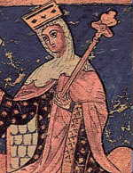 Picture of Urraca of Castile (12th century)